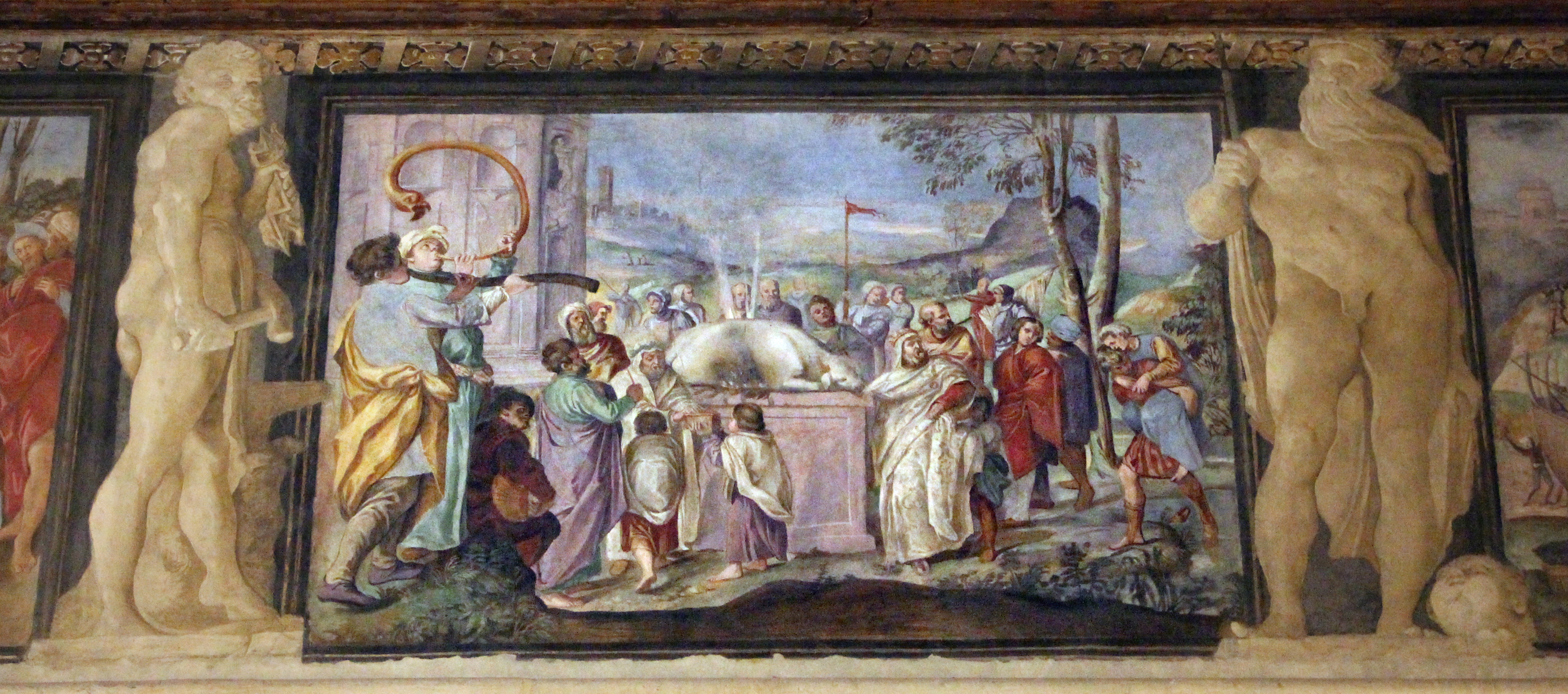 Frieze of Jason and Medea